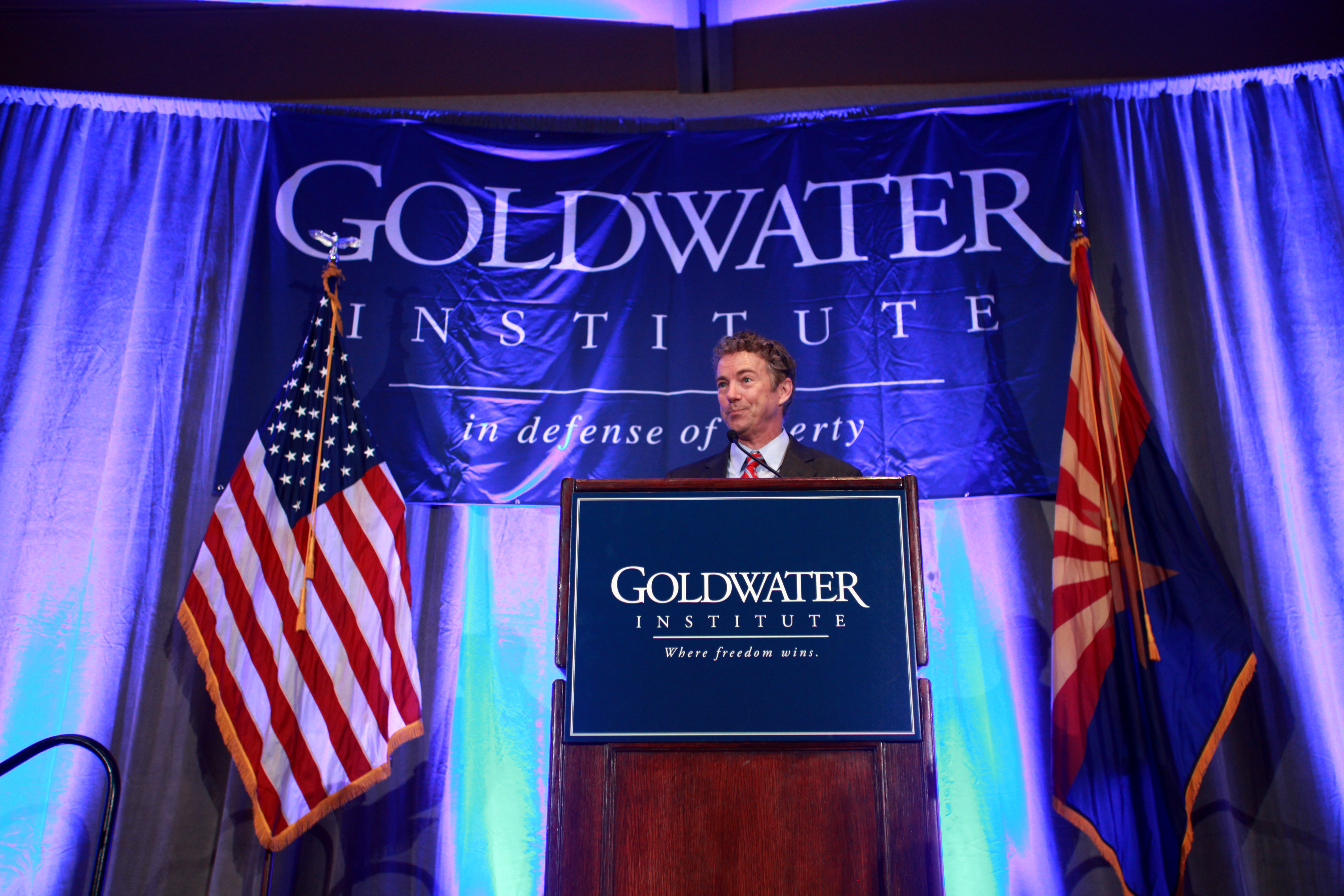 Rand Paul speaking at the Goldwater Dinner in Paradise Valley, Arizona.